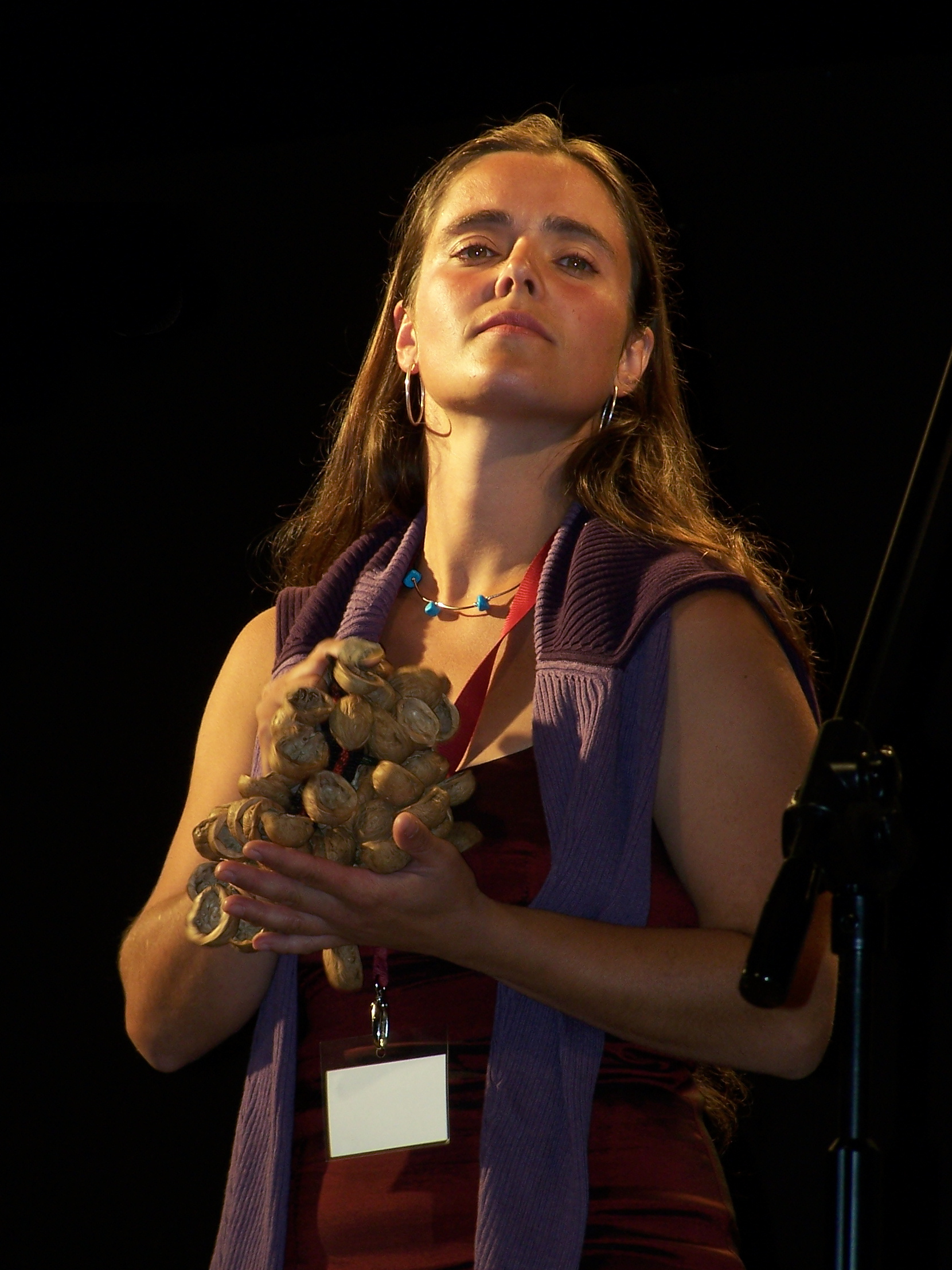 Anna Kuncewicz from Sierra Manta band. The 43rd Beskidy Highlanders' Week of Culture.